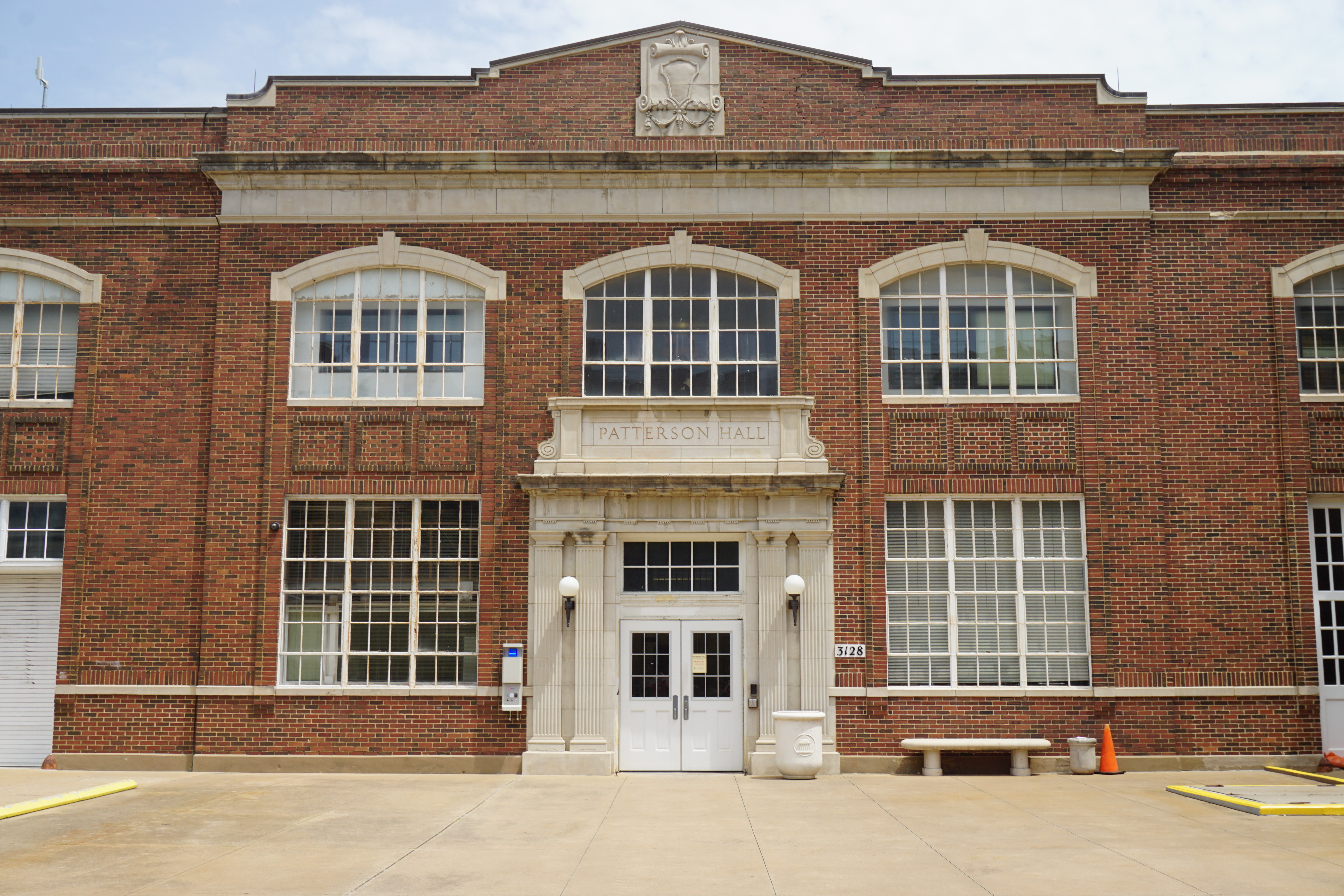 Patterson Hall on the campus of Southern Methodist University in University Park, Texas (United States).